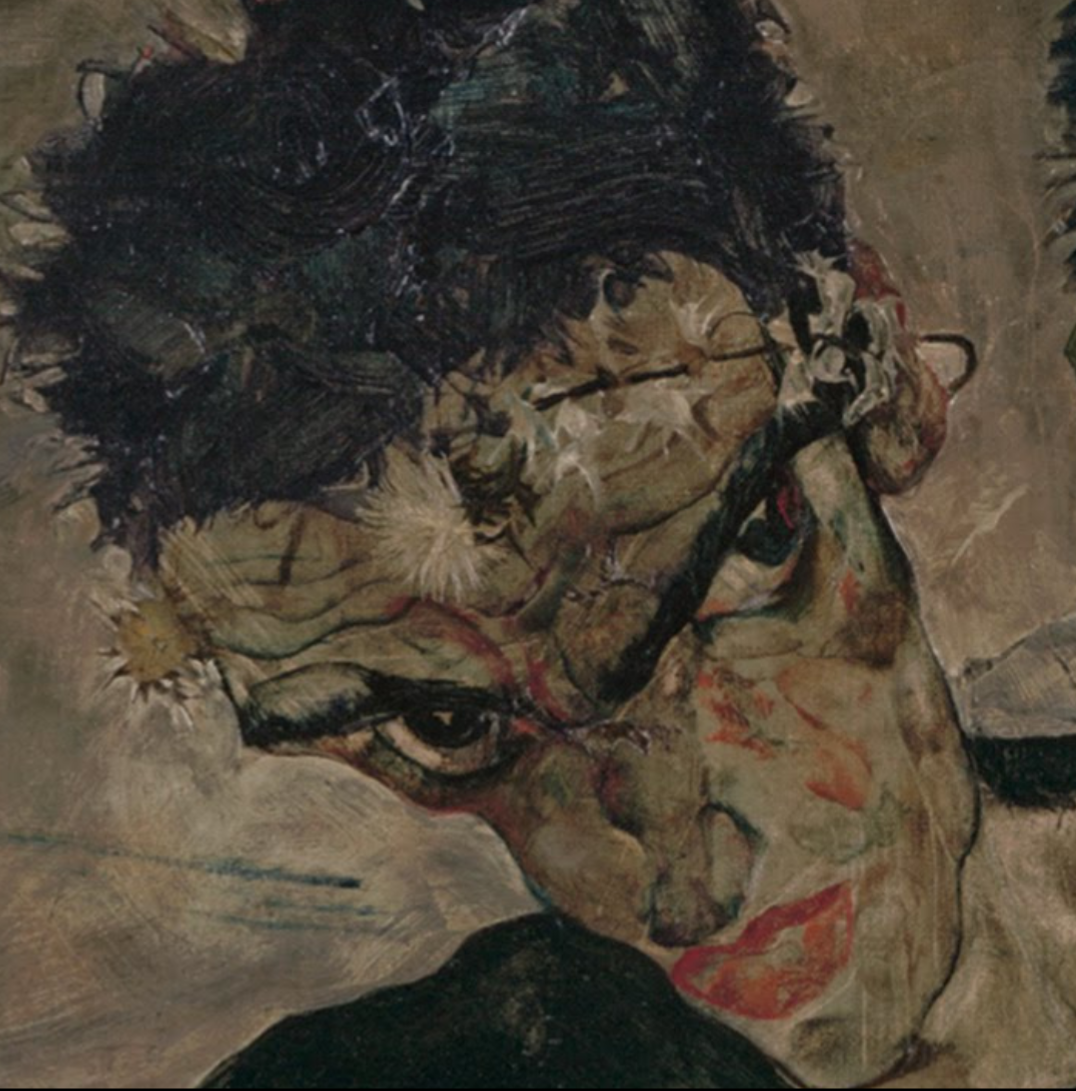 Egon Schiele, The hermits, detail.